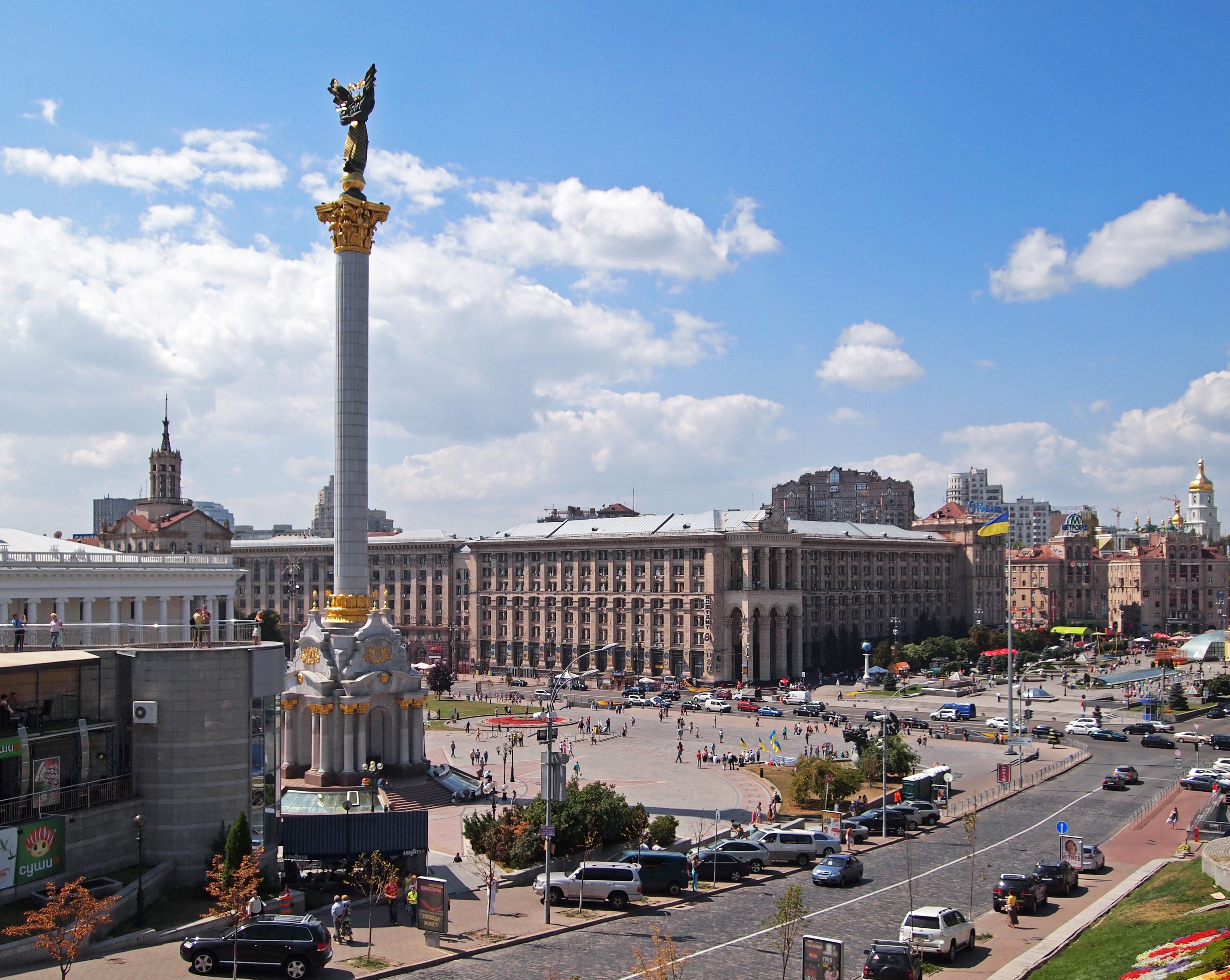 Maidan Nezalezhnosti square in Kiev. The Independence monument in on the left. This photograph was taken with an Olympus E-PL1